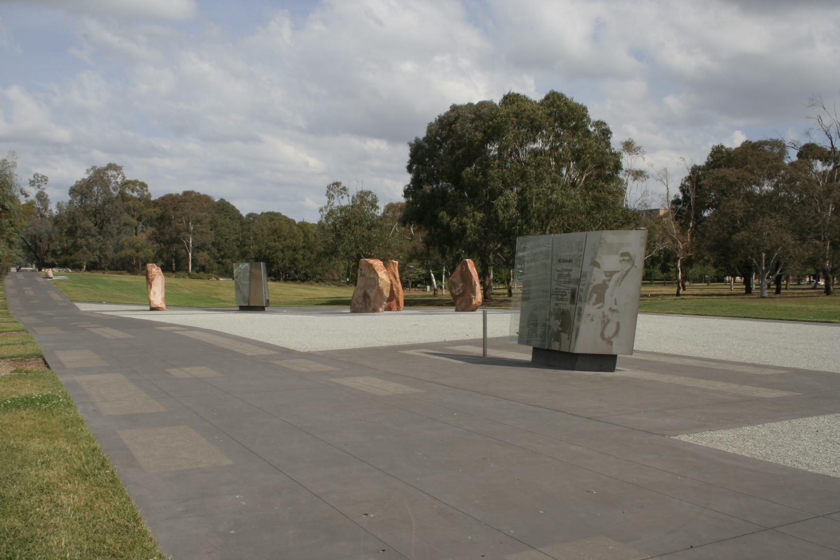 Reconciliation Place Eastern Promenade, Canberra, Australia